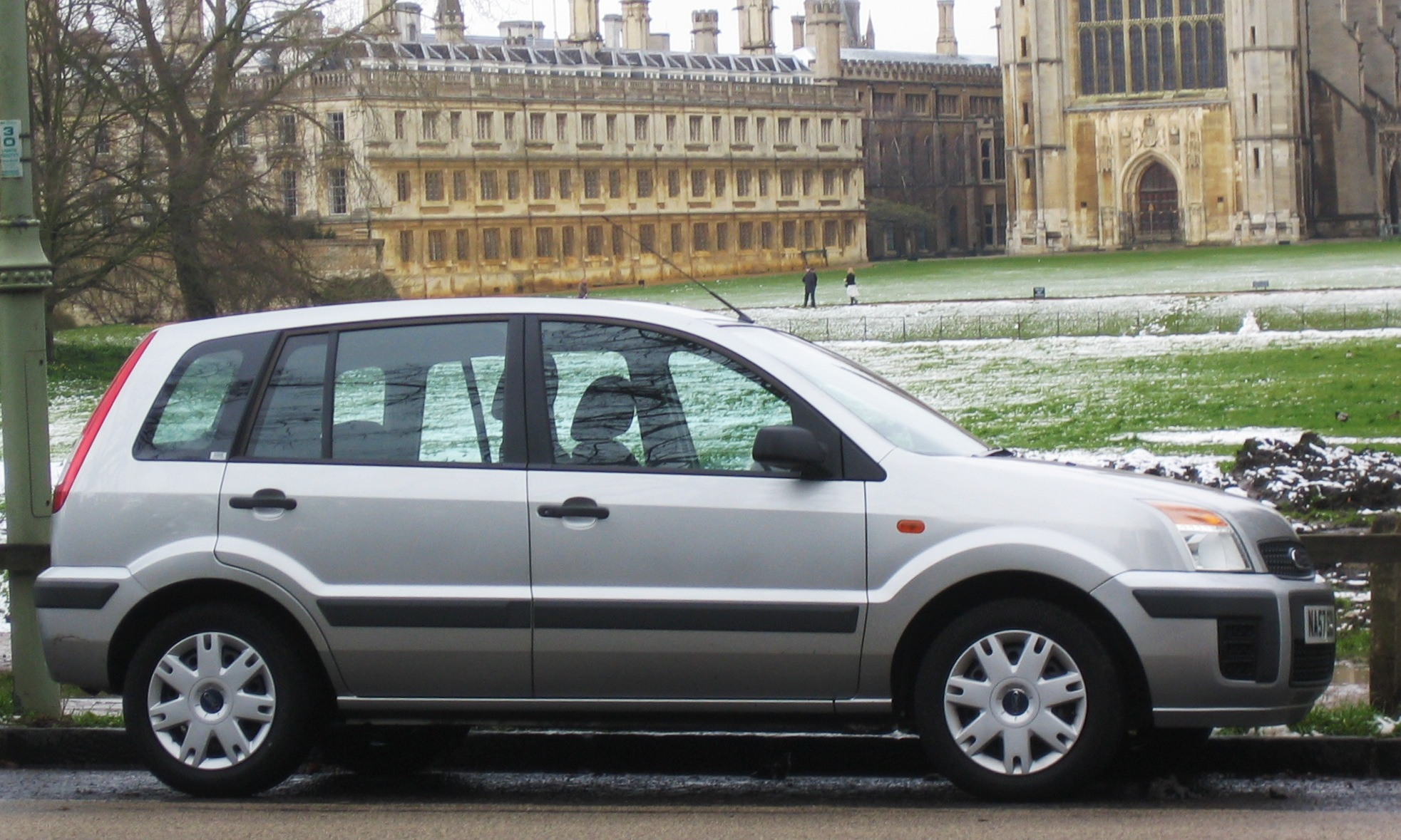 Ford Fusion in profile. Cambridge